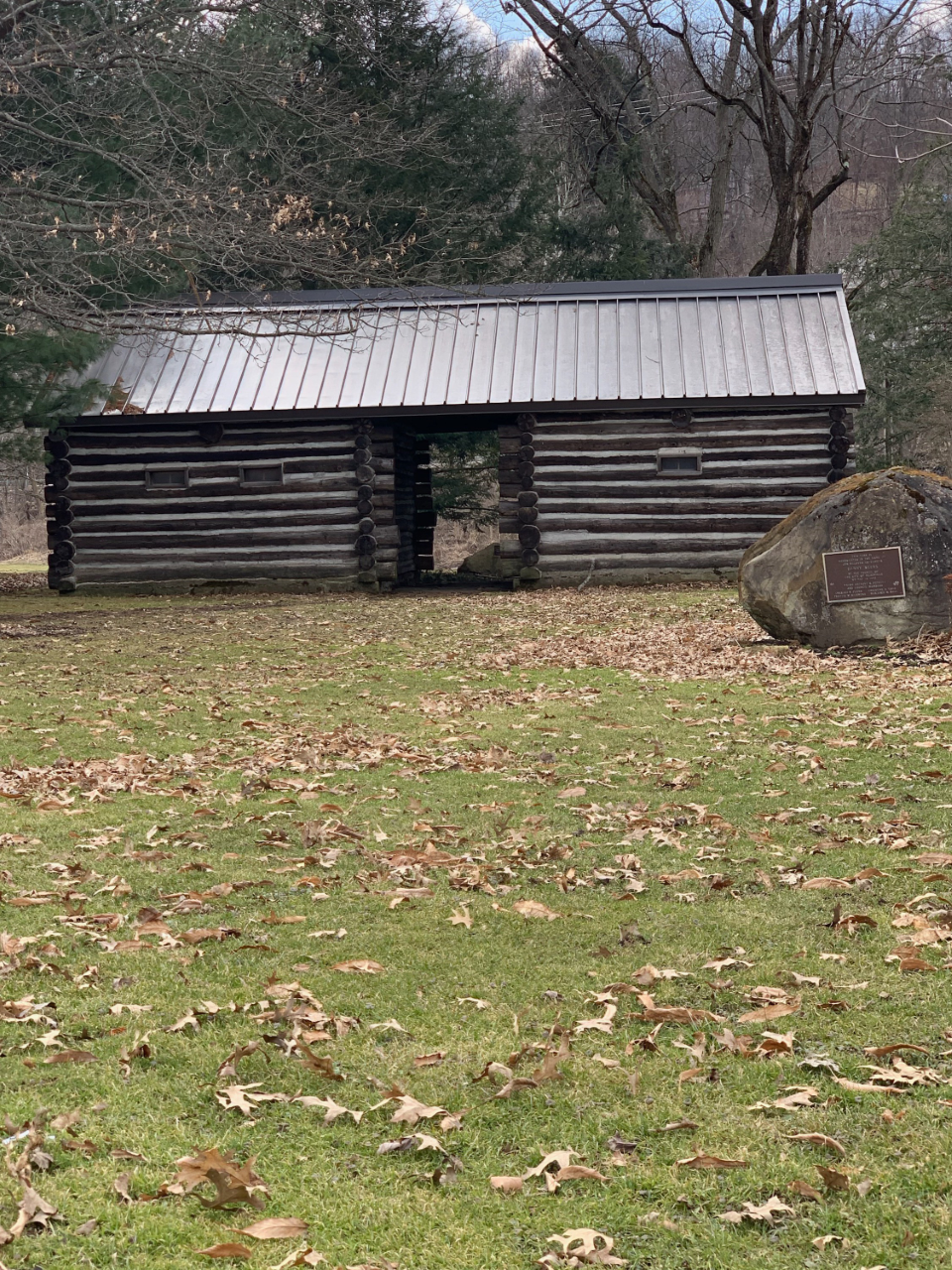 This image shows the first permanent settlement in northwestern Pennsylvania